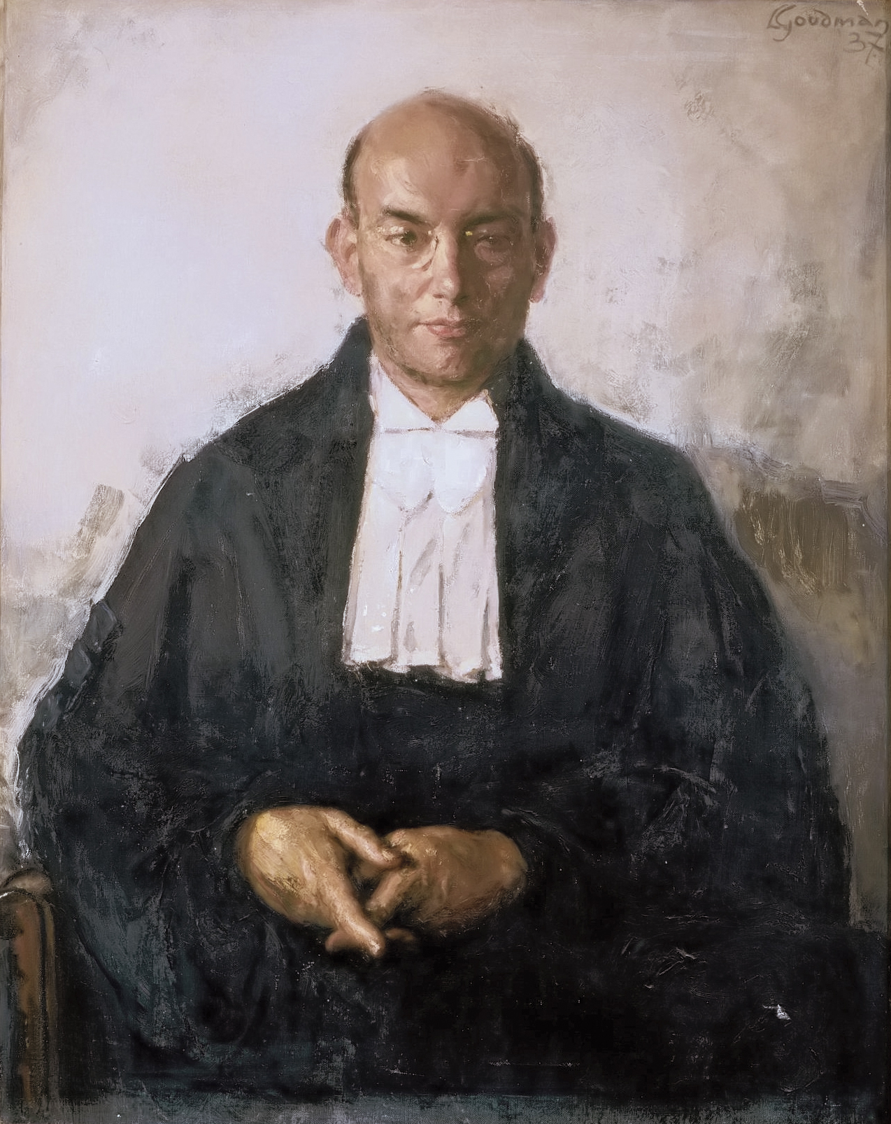 Isidore Snapper (1889-1973) oil on canvas 101 x 61.5 cm 1937 signed t.r.: LGoudman / 37